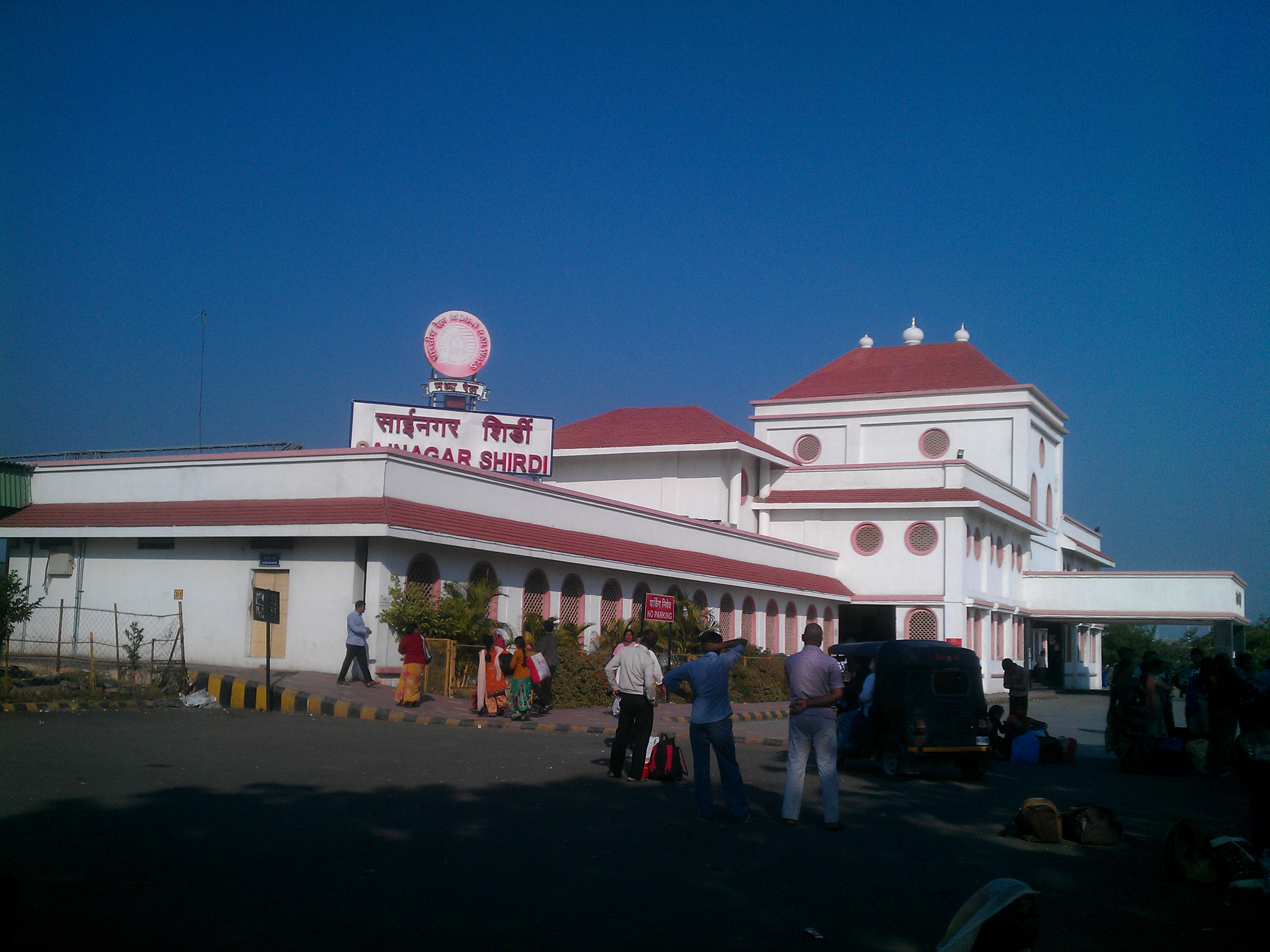 SNSI, Sainagar Shirdi Railway Station in the holy town of Shirdi, Maharashtra. This station is under Central Railway, CR zone of Indian Railways. Google Maps location: Raw File: IMAG6273.jpg Time: 24 December 2013, 15:43:30 Info from Elevation: 509 m above sea level Zone: CR/Central Division: Solapur Track: Single Electrified BG Number of Platforms: 2 Number of Halting Trains: 0 Number of Originating Trains: 12 Number of Terminating Trains: 12 Opp to Wet n Joy Water Park, Shirdi 423109, Maharashtra Updated: May 20 2015 (2:31PM)